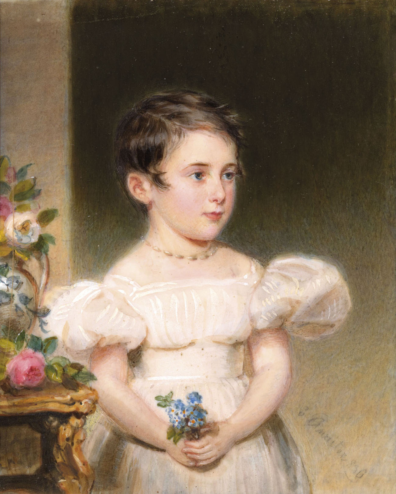 A child holding a bouquet of flowers - (not retouched)